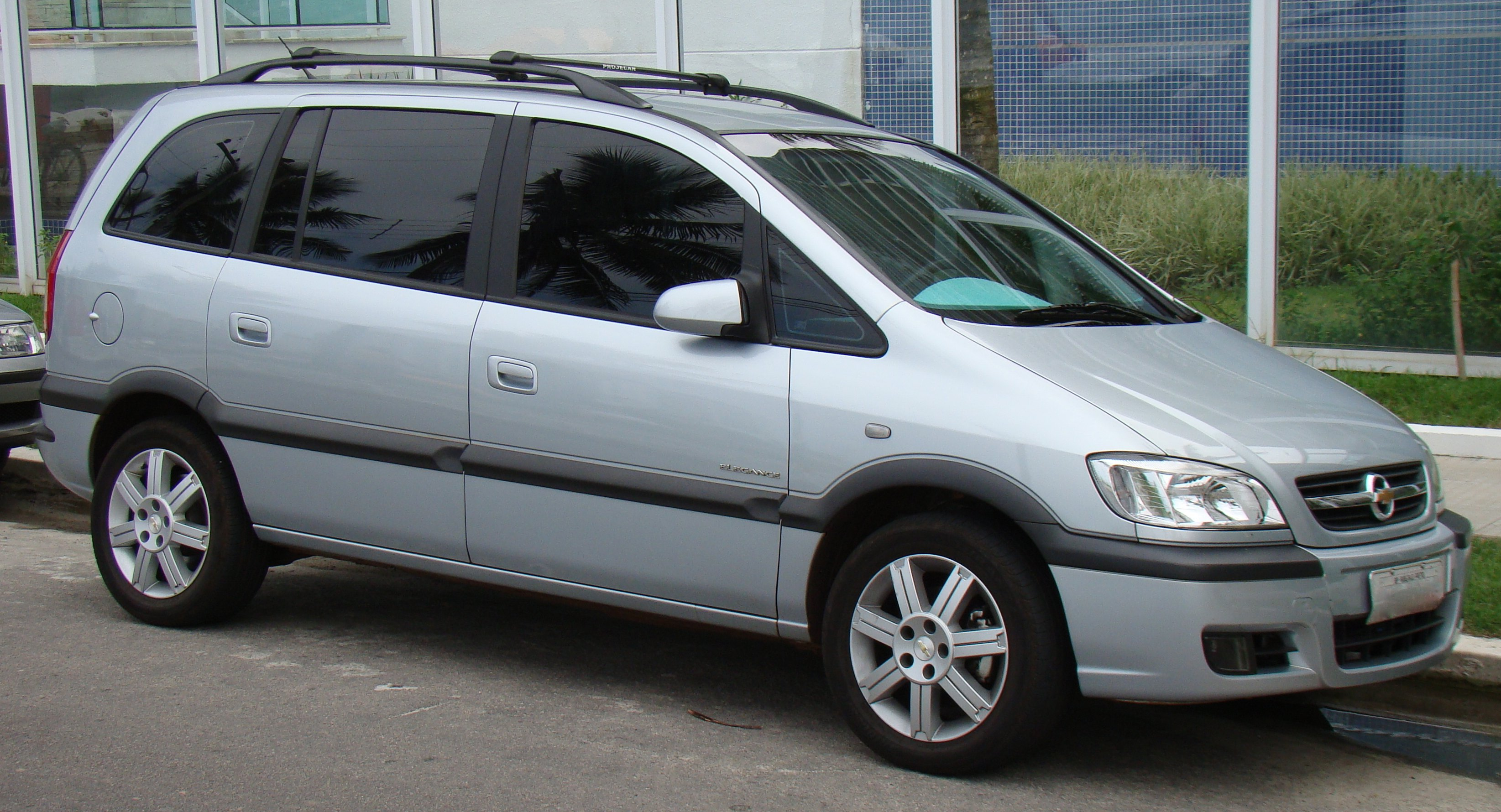 1999-2005 Chevrolet Zafira photographed in Mazatlan, Sinaloa, Mexico.